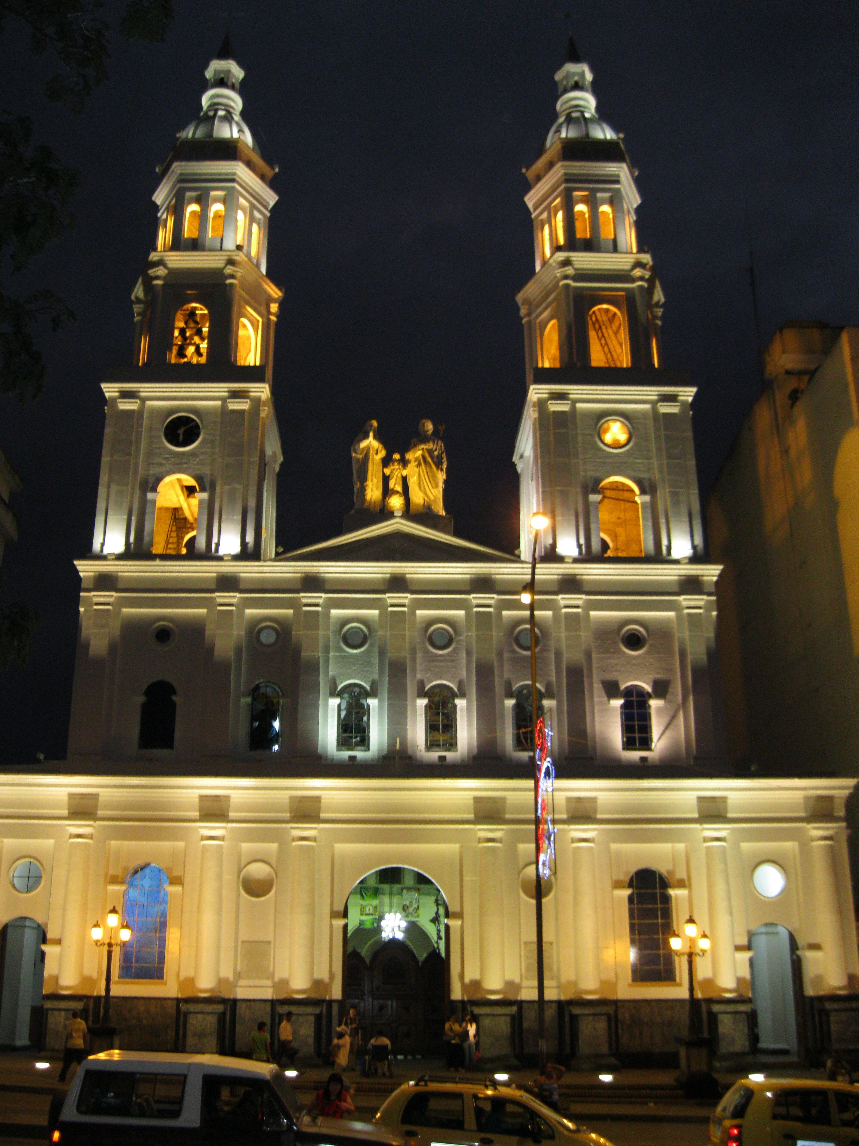 Holly Family Church, Bucaramanga, Colombia